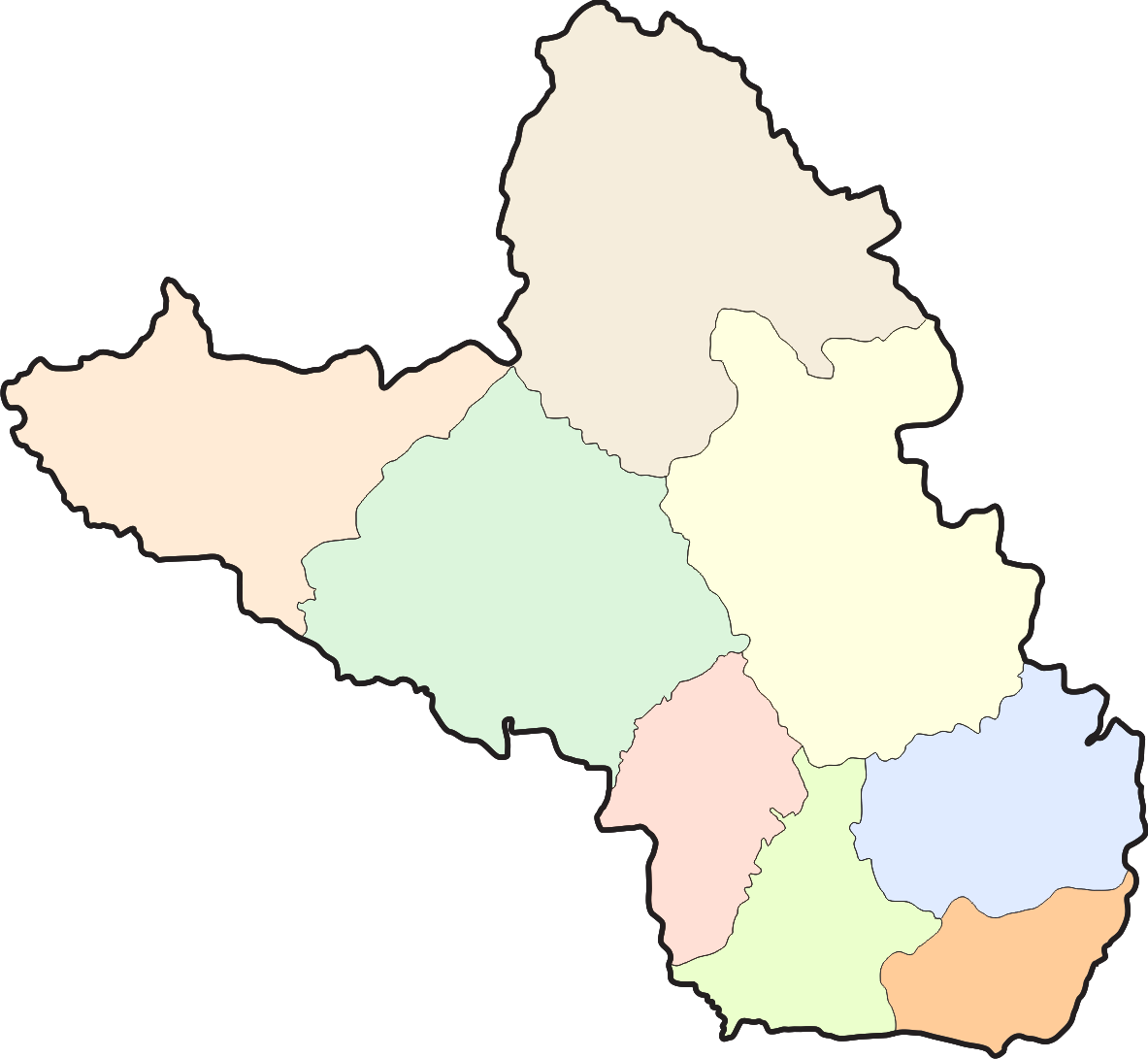 Planned Orbai Seat